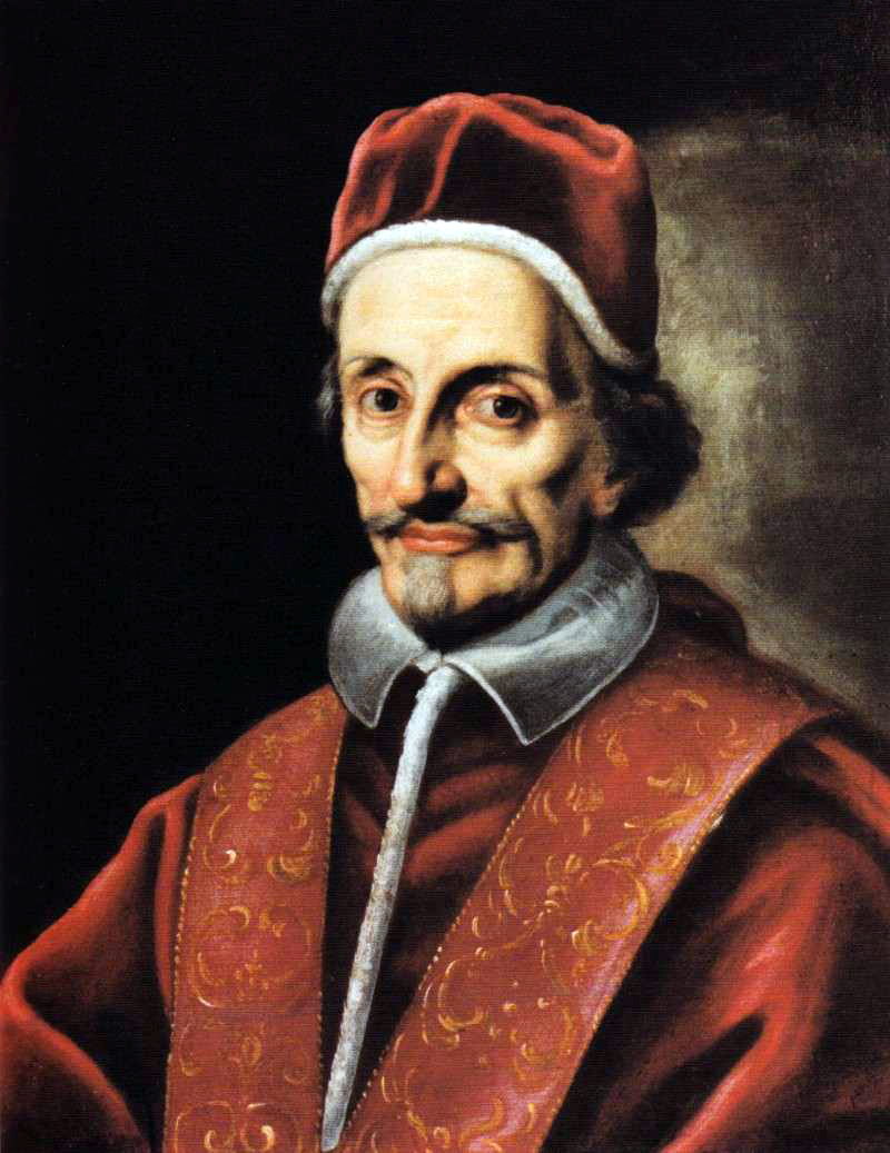 Portrait of Blessed Pope Innocent XI